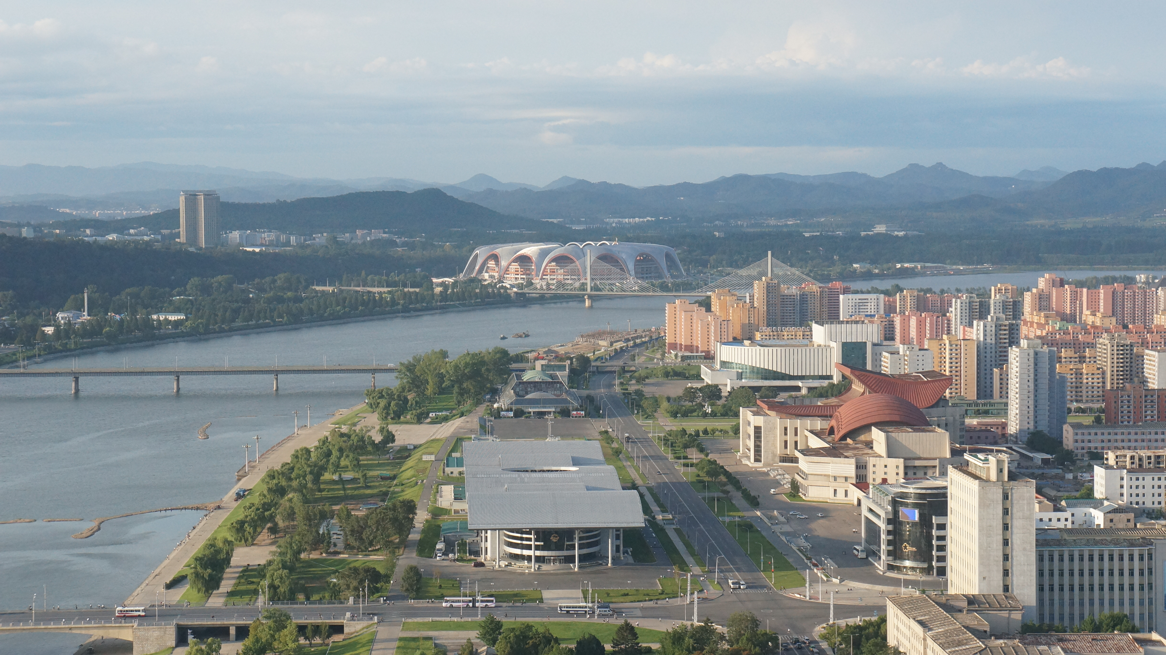 May Day Stadium in the background